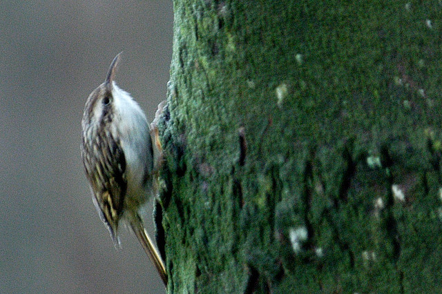 Certhia brachydactyla from Commanster, Belgian High Ardennes .